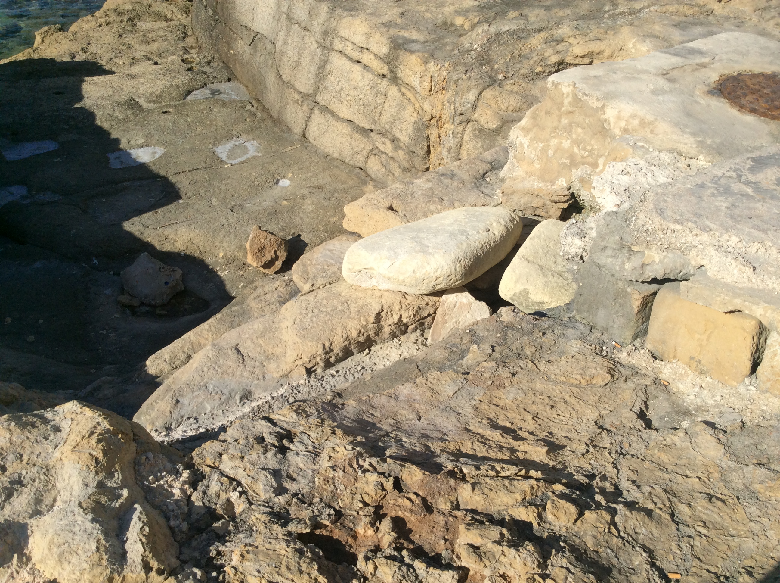 Bugibba Battery This media is about Maltese cultural property with inventory number 01400.